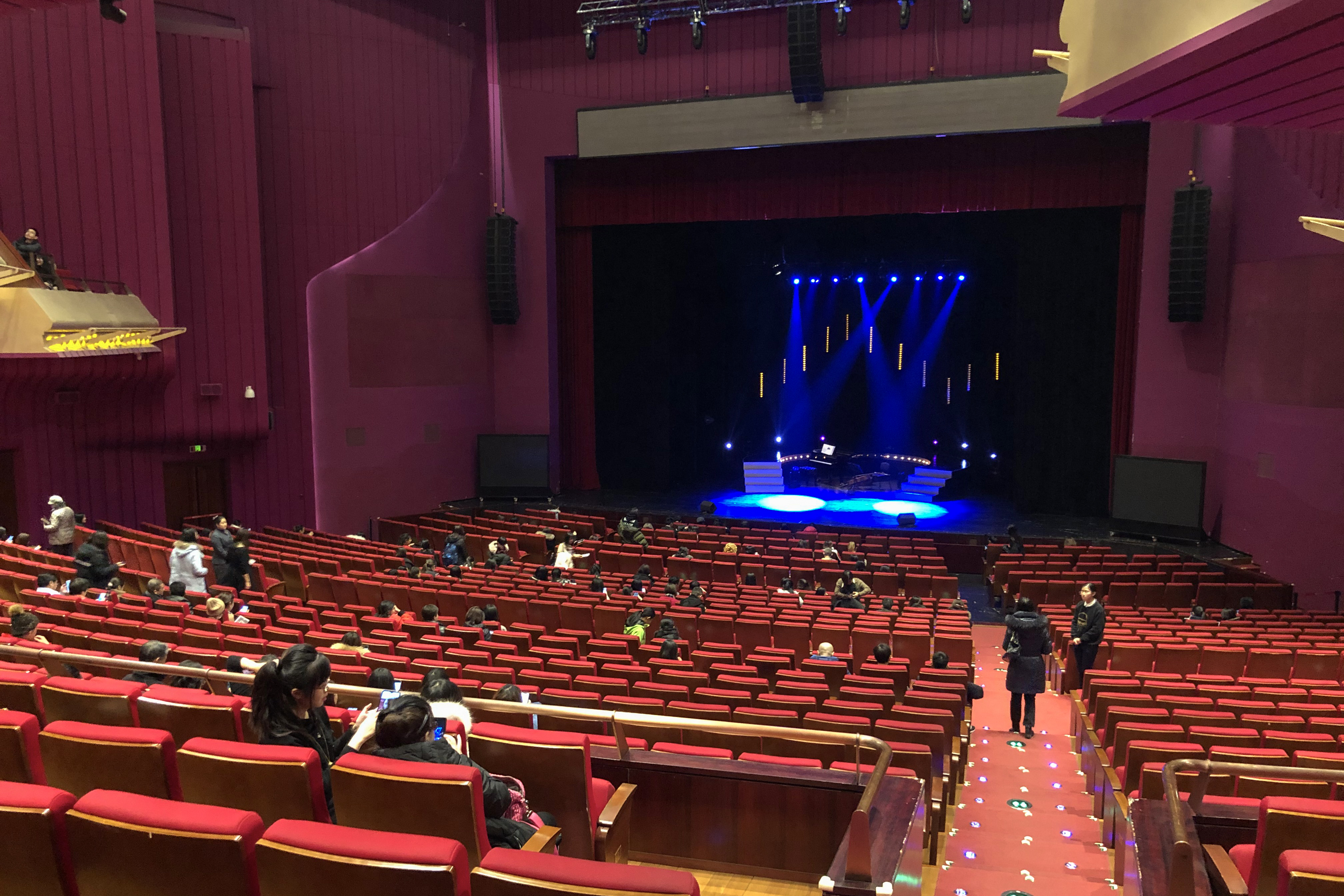 For the "Three Phantoms".